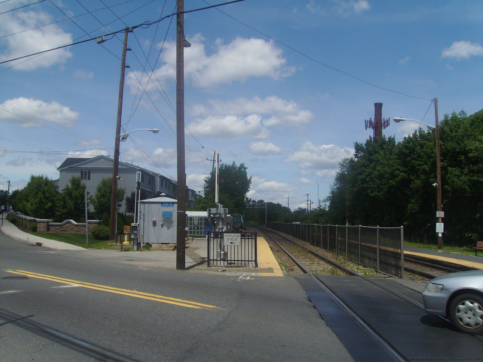 The legacy Plauderville station in Garfield, New Jersey and Saddle Brook, New Jersey. The station here was replaced by a new one in October, 2011. The new station was under construction, behind the photographer, at the time of the photograph.